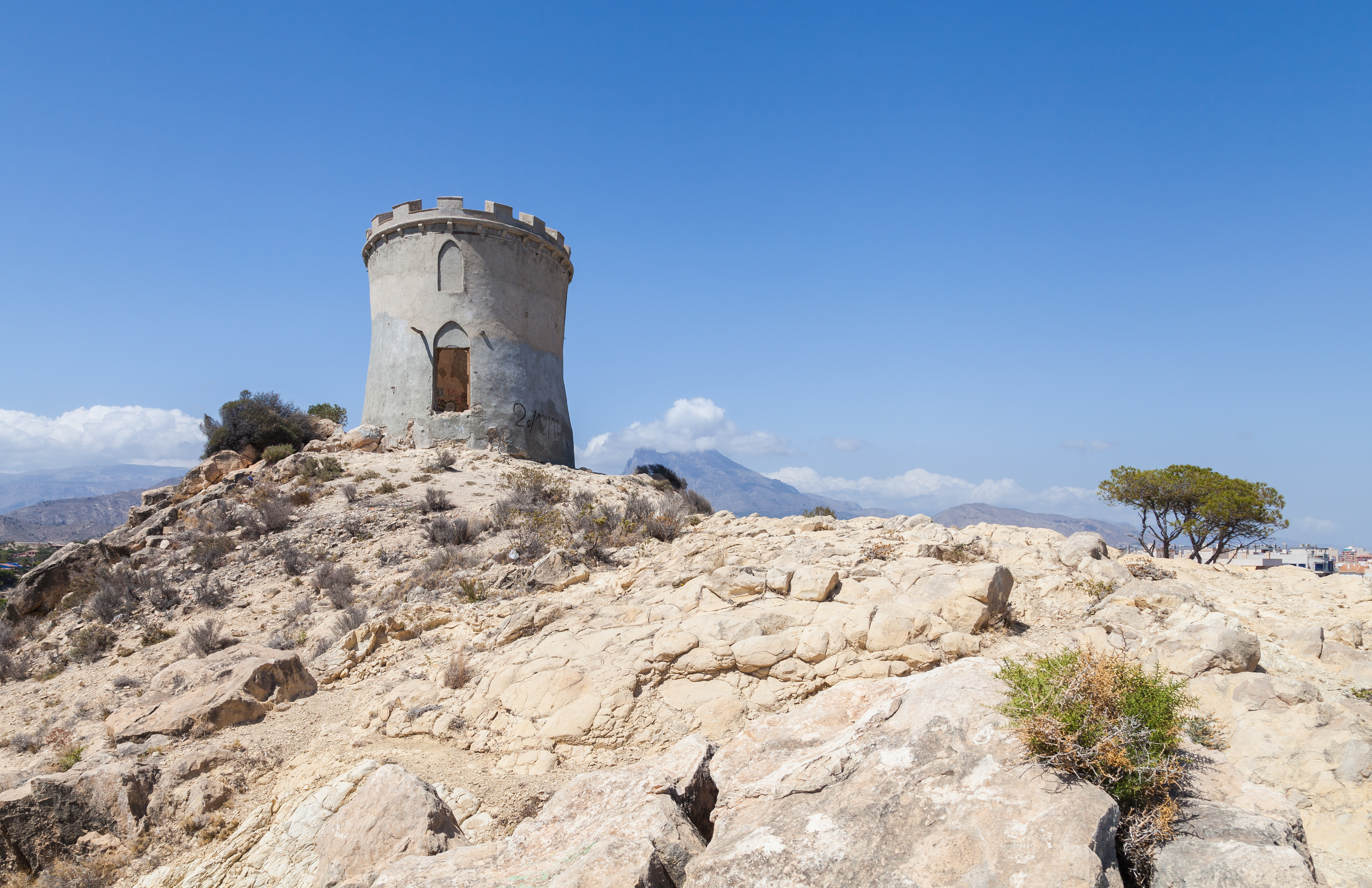 The Torreón Malladeta (Malladeta Keep) is a keep located over Paradise beach in Villajoyosa, in the coast the province of Alicante, Valencian Community (Spain). The keep has an oval-shaped base and was built by a rich family (Esquerdo) at the end of the 19th century inspired by the coastal keeps of the 16th century. 31.139-040.